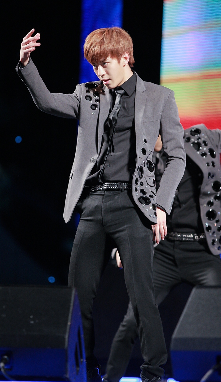 Hongbin at the Culture and Arts Festival in Seoul Plaza on October 13, 2013.